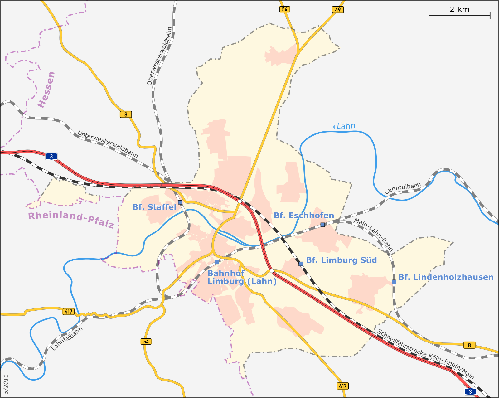 Map of Limburg an der Lahn's city districts + main streets and railway